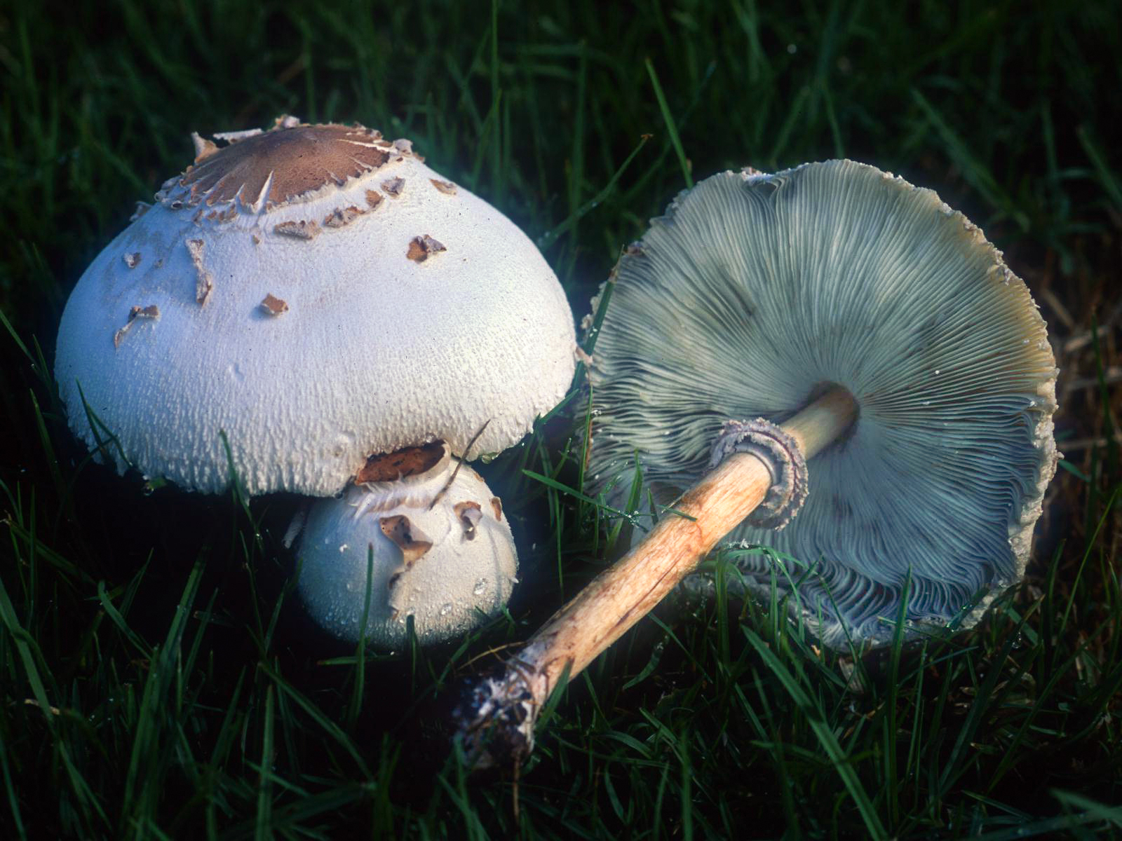 Chlorophyllum molybdites (G. Mey.) Massee in a lawn at Loz Feliz, Los Angeles, California, USA.